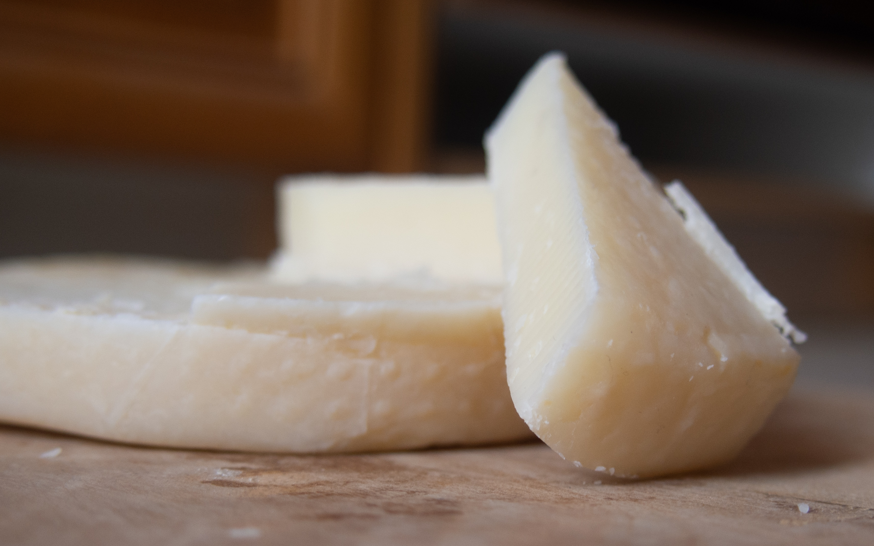 A slice of Ladotyri, a cheese produced in Lesbos.